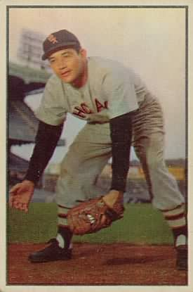 1953 Bowman Color baseball card of Chico Carrasquel of the Chicago White Sox #54. PD-not-renewed.